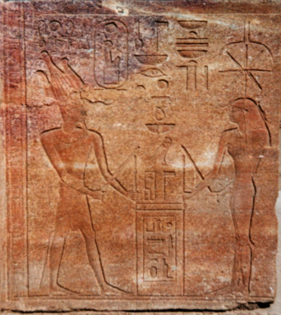 Foundation of the red chapel by Hatshepsut and Seshat